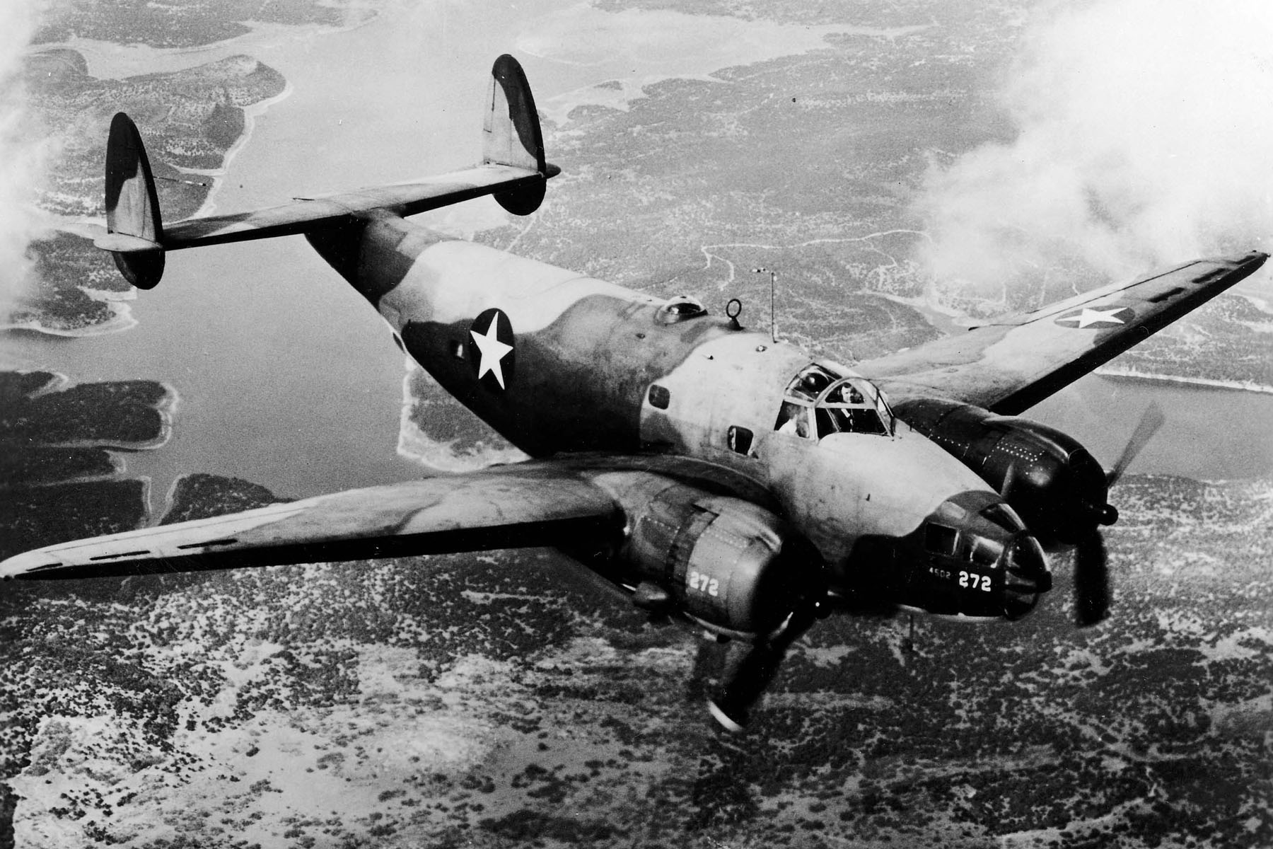 A USAAF Lockheed B-34-VE in flight, in 1943.